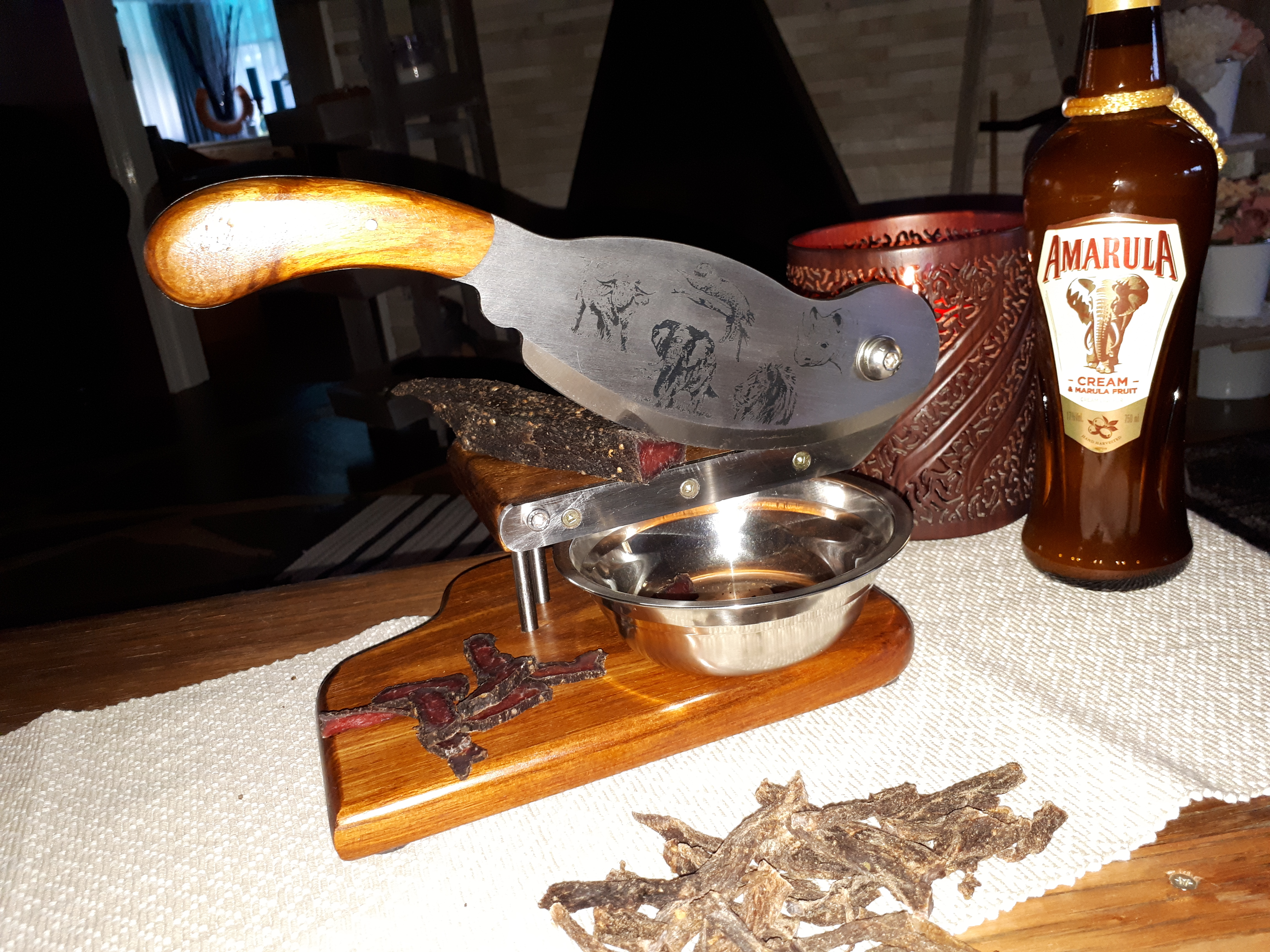 This is an image with the theme "Play" from: Namibia